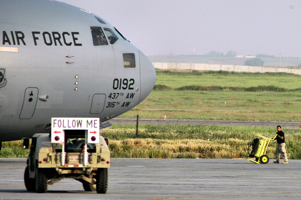 Staff Sgt. Sammy Ayala positions a fire bottle while preparing a C-17 Globemaster III for parking April 28. He is a transient alert Airman and KC-10 Extender crew chief with the 416th Air Expeditionary Group's transient alert flight at KARSHI-KHANABAD AIR BASE, Uzbekistan